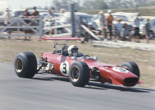 Chris Amon in the Ferrari 246T, winner of the Australian Grand Prix, Lakeside International Raceway, 2nd February 1969, Photo by Graham Ruckert.